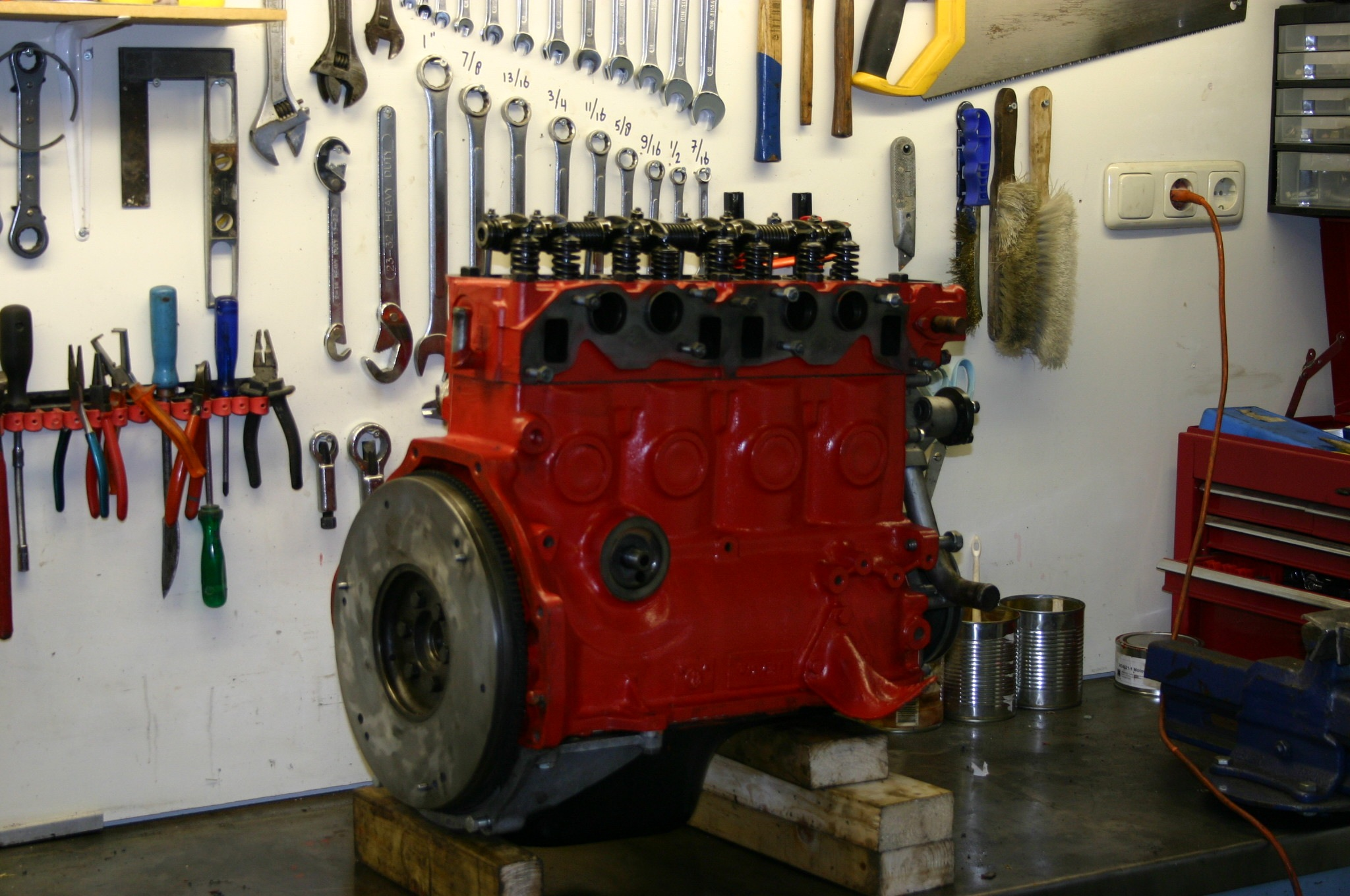 Originally a Volvo B20 engine. Now with higher compression, bigger valves, modified camshaft, 2100 cc.